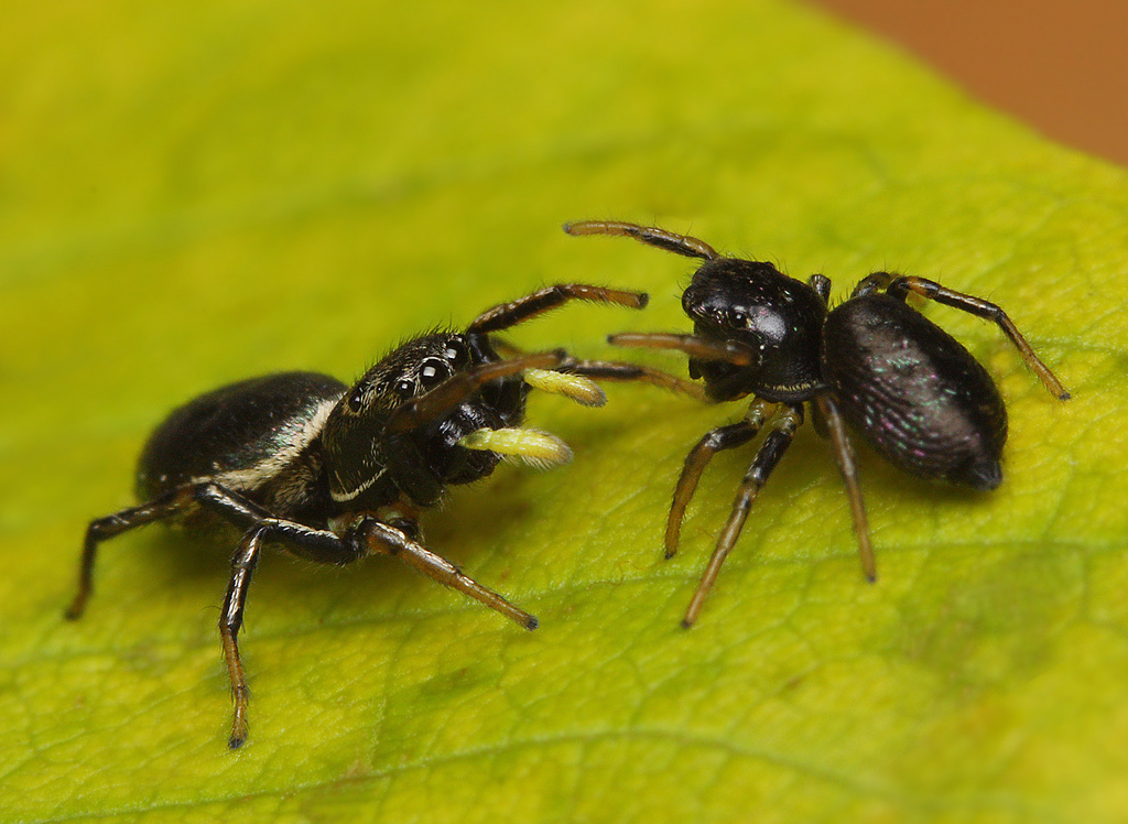 Jumping spiders - Heliophanus sp. (Fight)